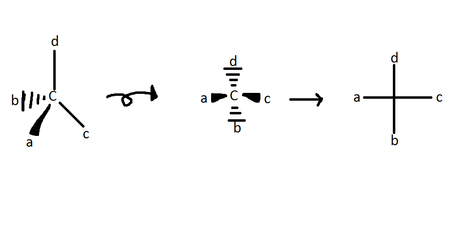 conversion of hashed wedge structure to fischer projection